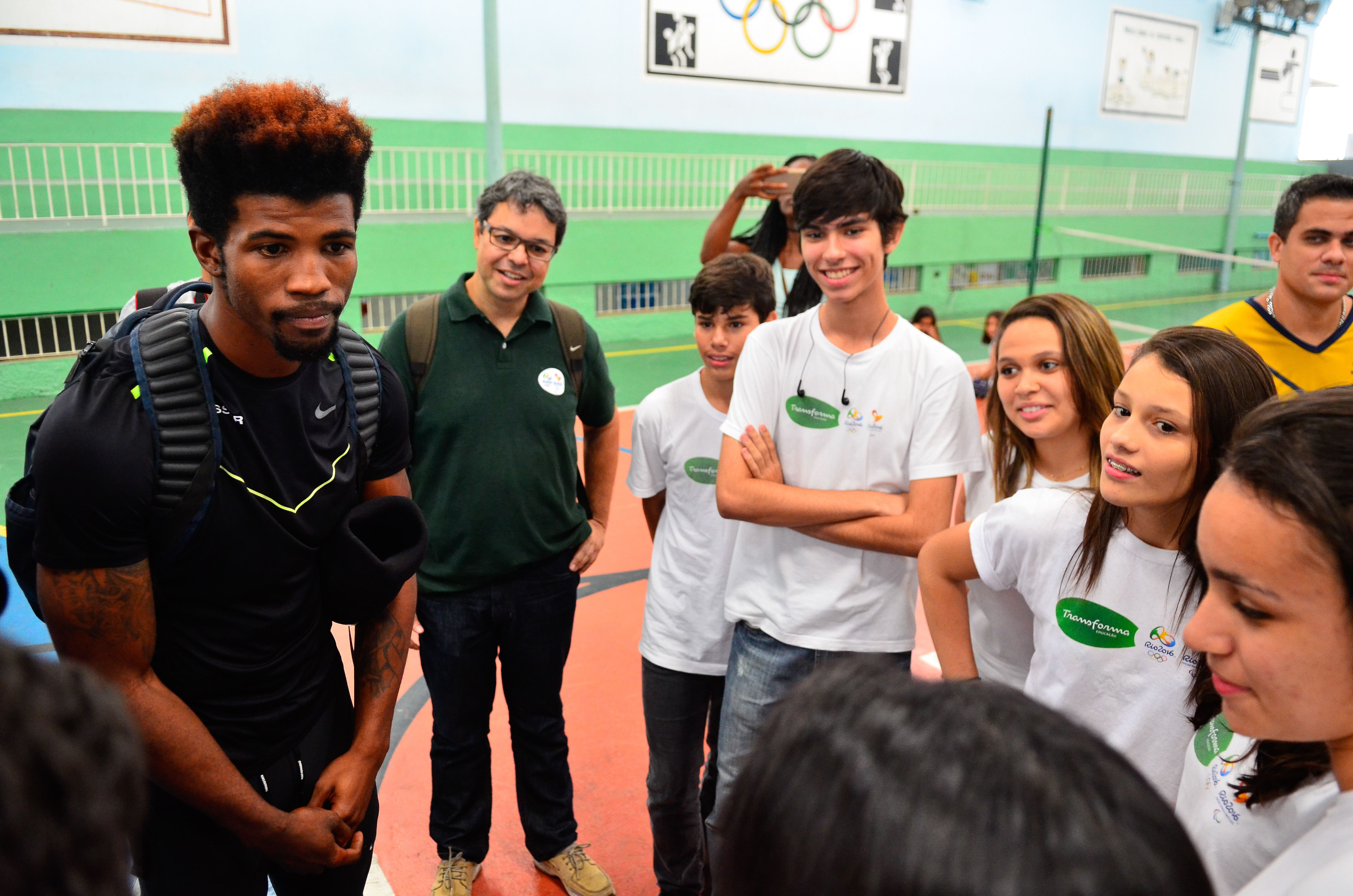 Richard Browne meets students in Brazil (Photo by Fernando Frazão/Agência Brasil CCBY3.0)